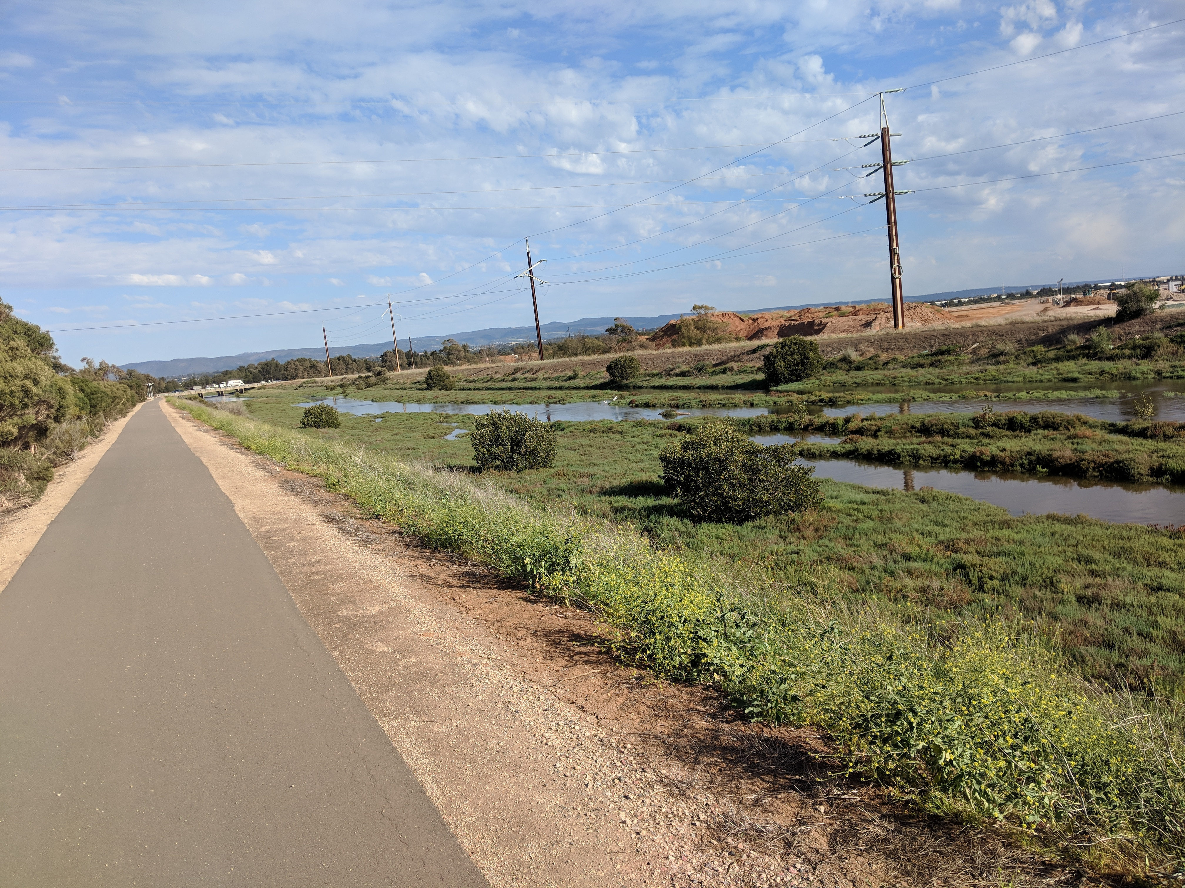 Dry Creek drain, facing southeast towards Port Wakefield Road bridge Sealed creek-side cycle path from Globe Derby Park to Mawson Lakes is shown on the left